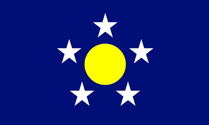 Flag of the Democratic Party of Vietnam